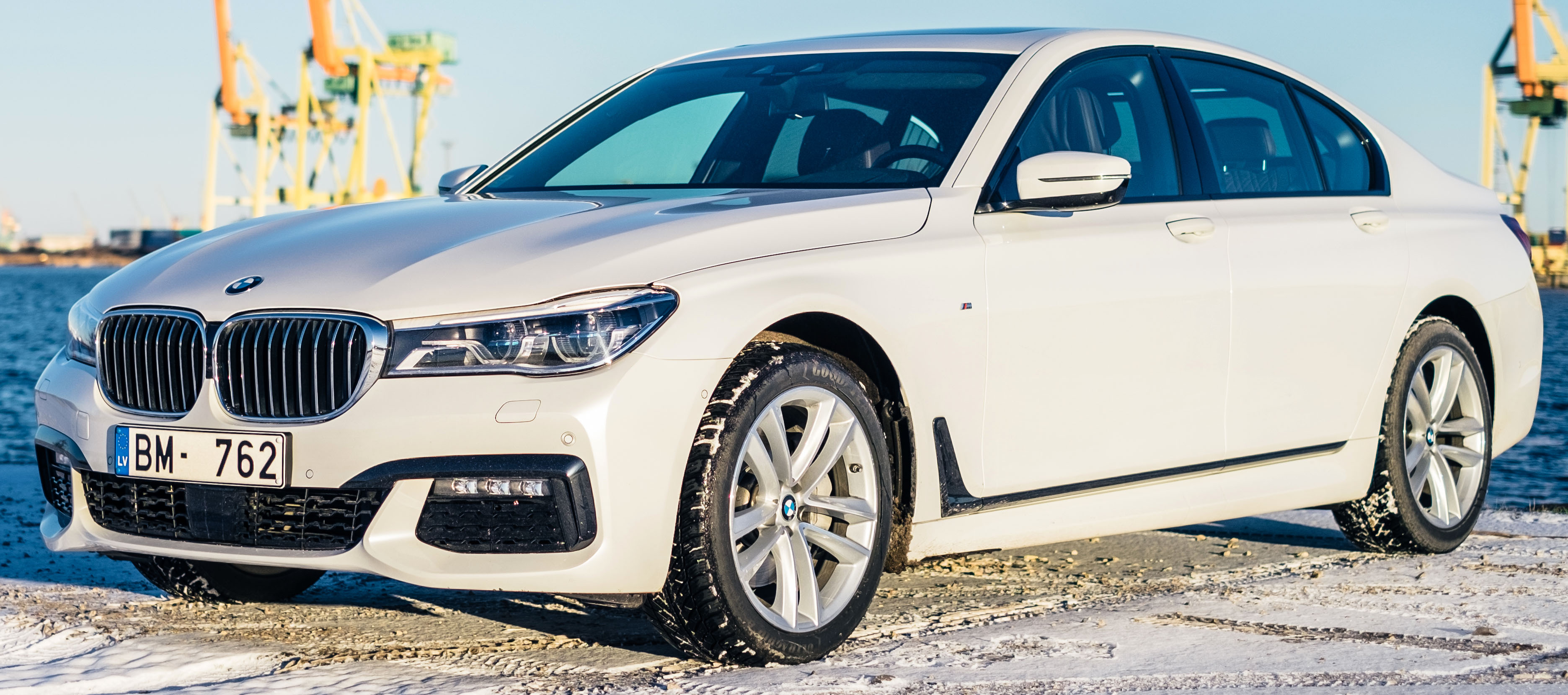 2016 BMW 7-Series (G11) sedan. Photographed in Latvia